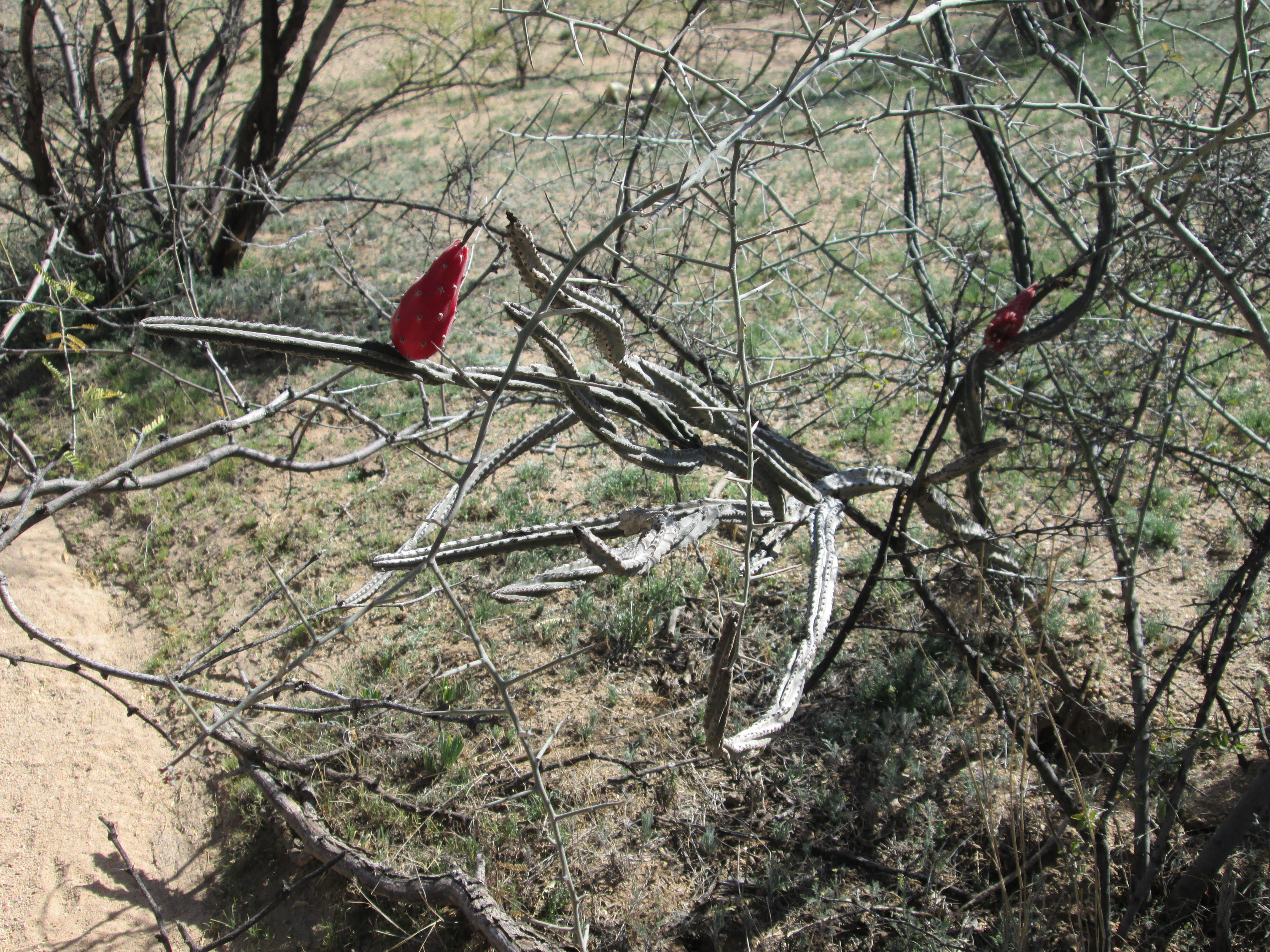 Peniocereus greggii (var. transmontanus) with fruit in the Sonoran Desert of Sahuarita, Arizona.